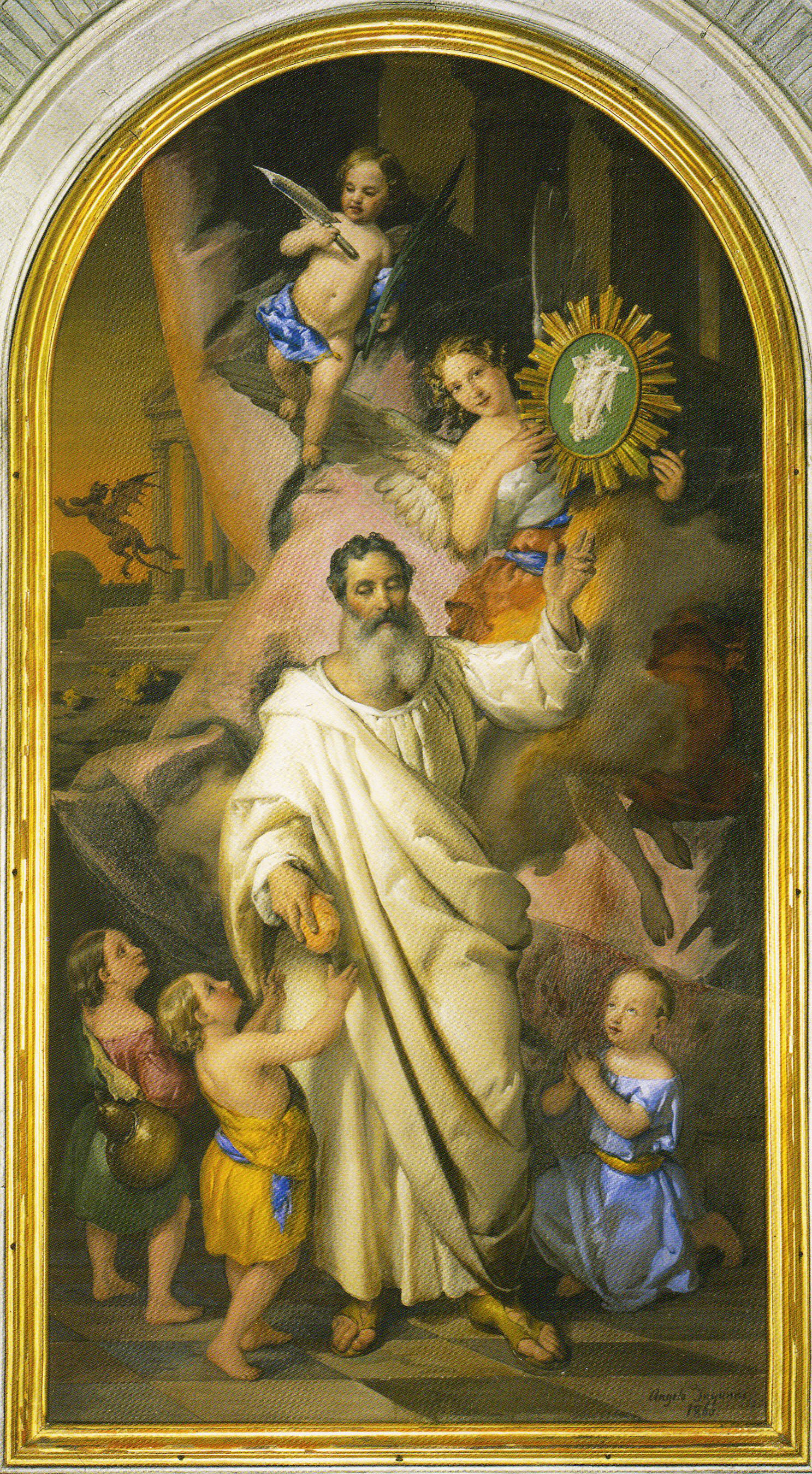 Saint Bartholomewlabel QS:Len,"Saint Bartholomew"label QS:Lit,"San Bartolomeo"